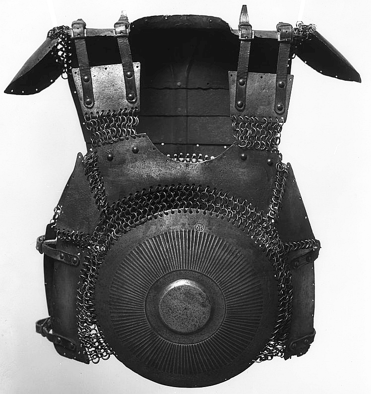 Krug (Breastplate and Backplate) Artist Anonymous (Turkey)Unknown authorTitle Krug (Breastplate and Backplate)Description